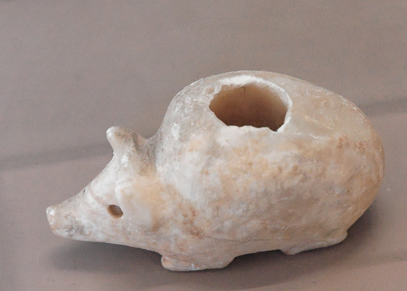 Vase in the shape of a piglet, or a hedgehog.